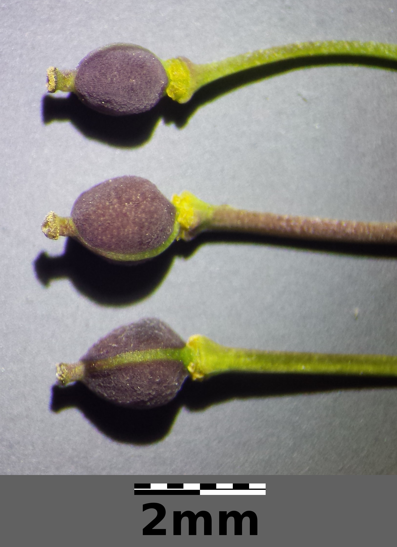 Siliques Taxonym: Kernera saxatilis ss Fischer et al. EfÖLS 2008 ISBN 978-3-85474-187-9 Location: Rax plateau, district Neunkirchen, Lower Austria - ca. 1600 m a.s.l. Habitat: rock